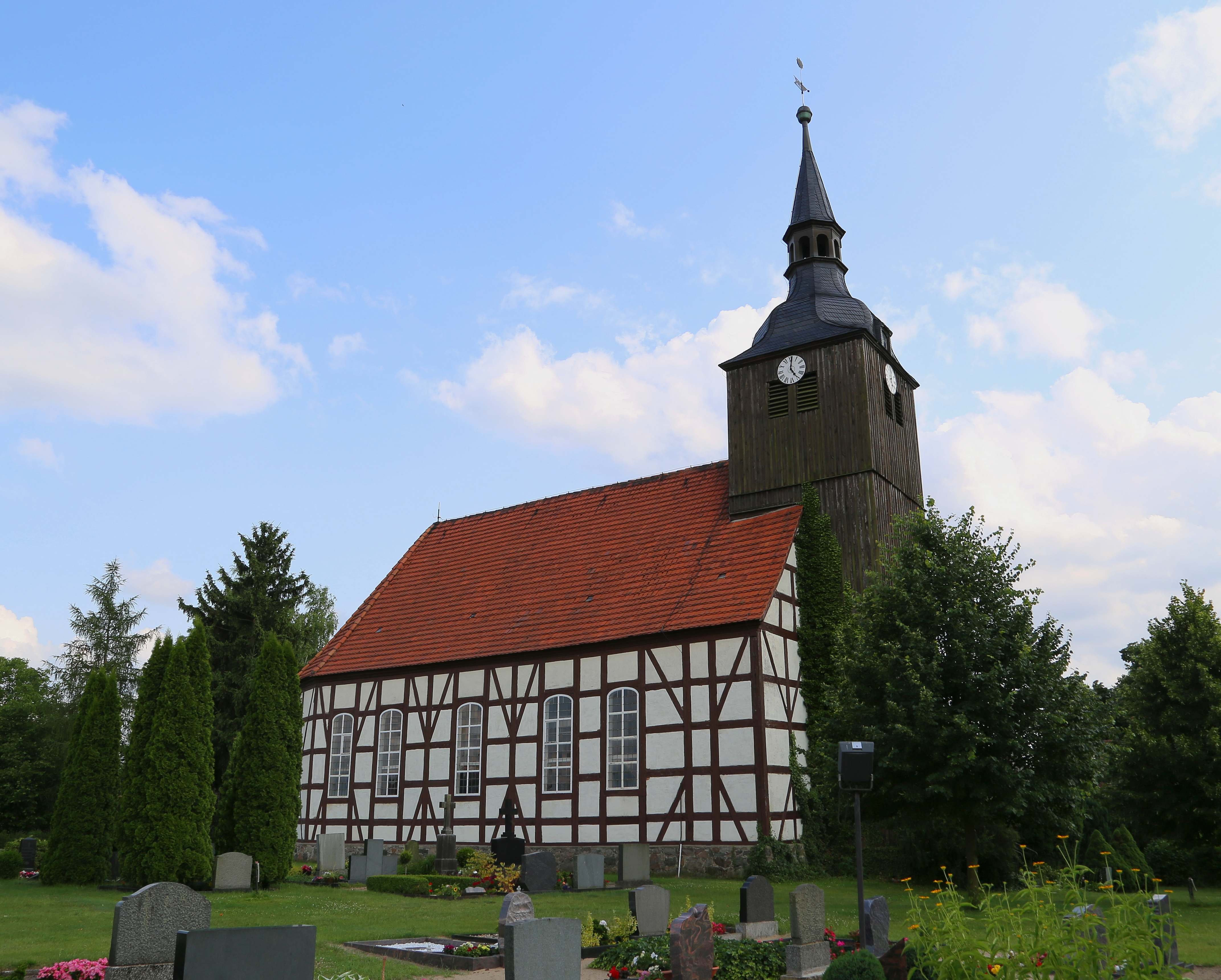 Protestant Village Church (Dorfkirche) of Schlepzig, Landkreis Dahme-Spreewald, Brandenburg, Germany. It is a listed cultural heritage monument.